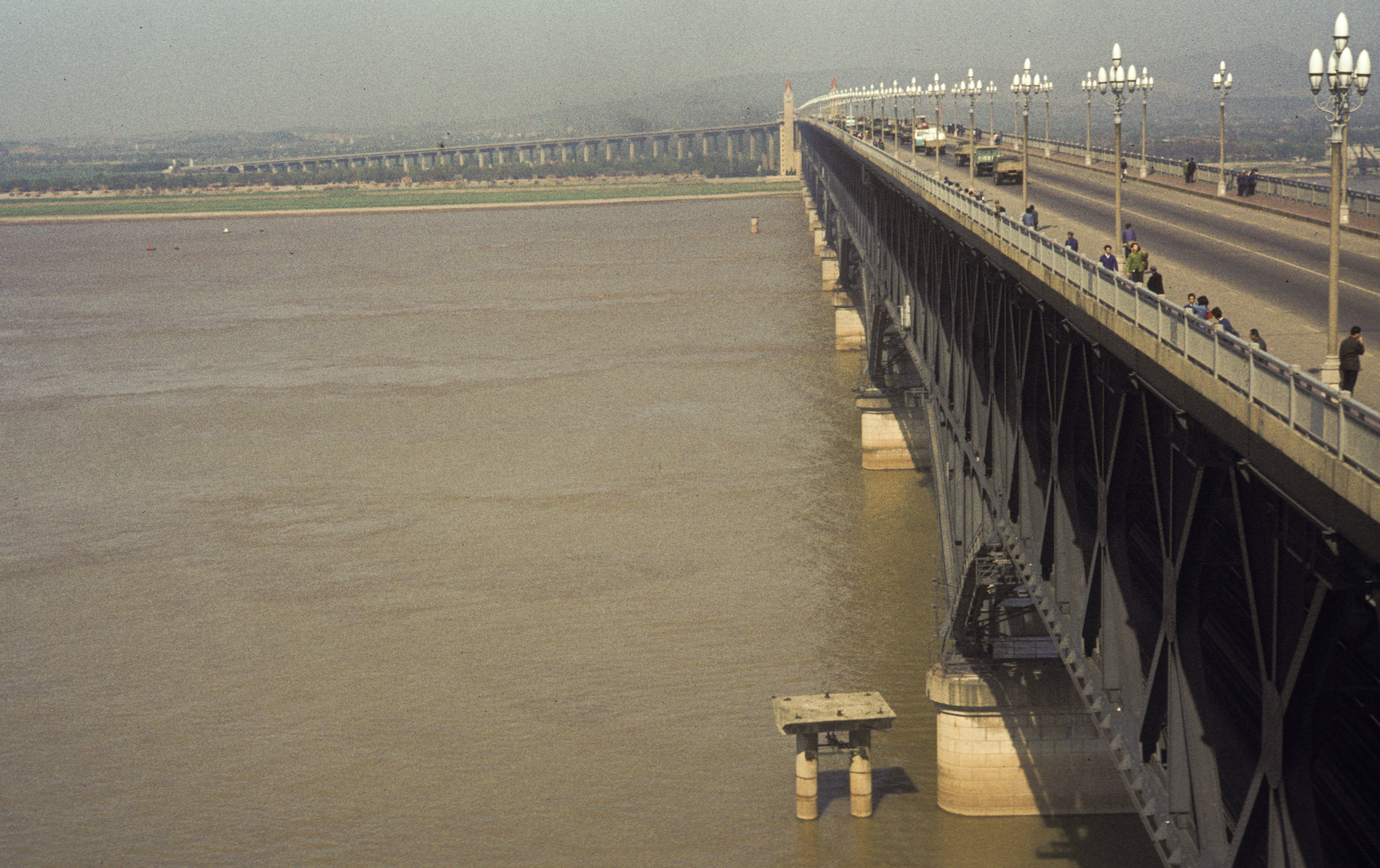 China in 1982, locality unknown